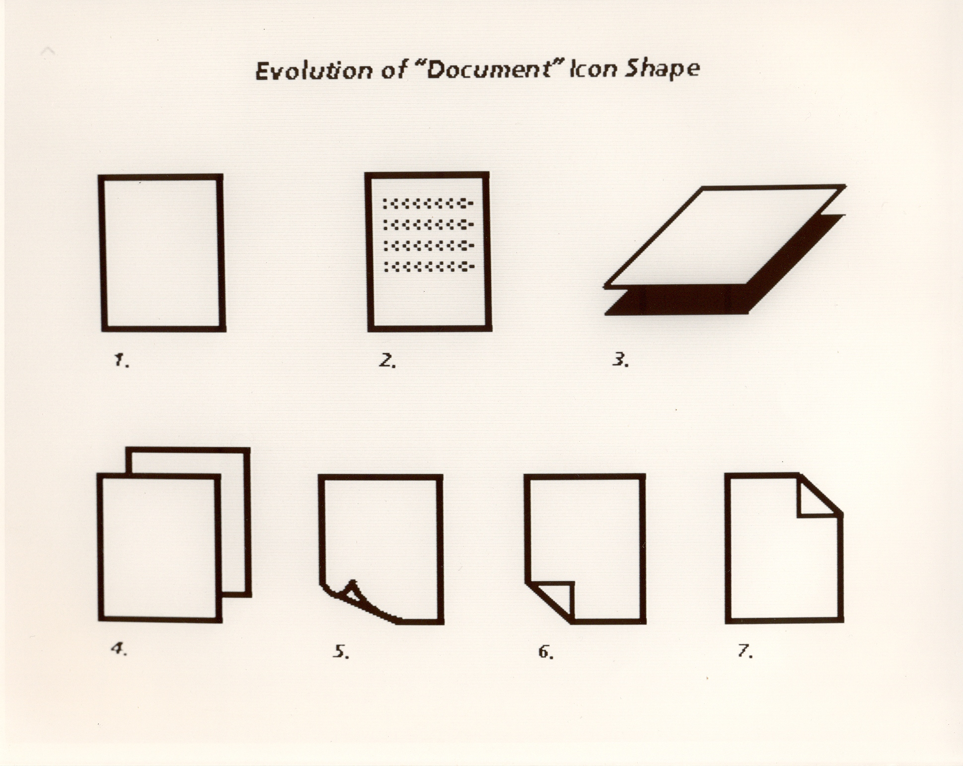 Scanned high-quality polaroid photograph of the Xerox Star 8010 workstation's screen, showing evolution of the document icon shape.